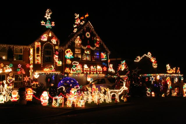 Christmas lights in Haughton, Staffordshire